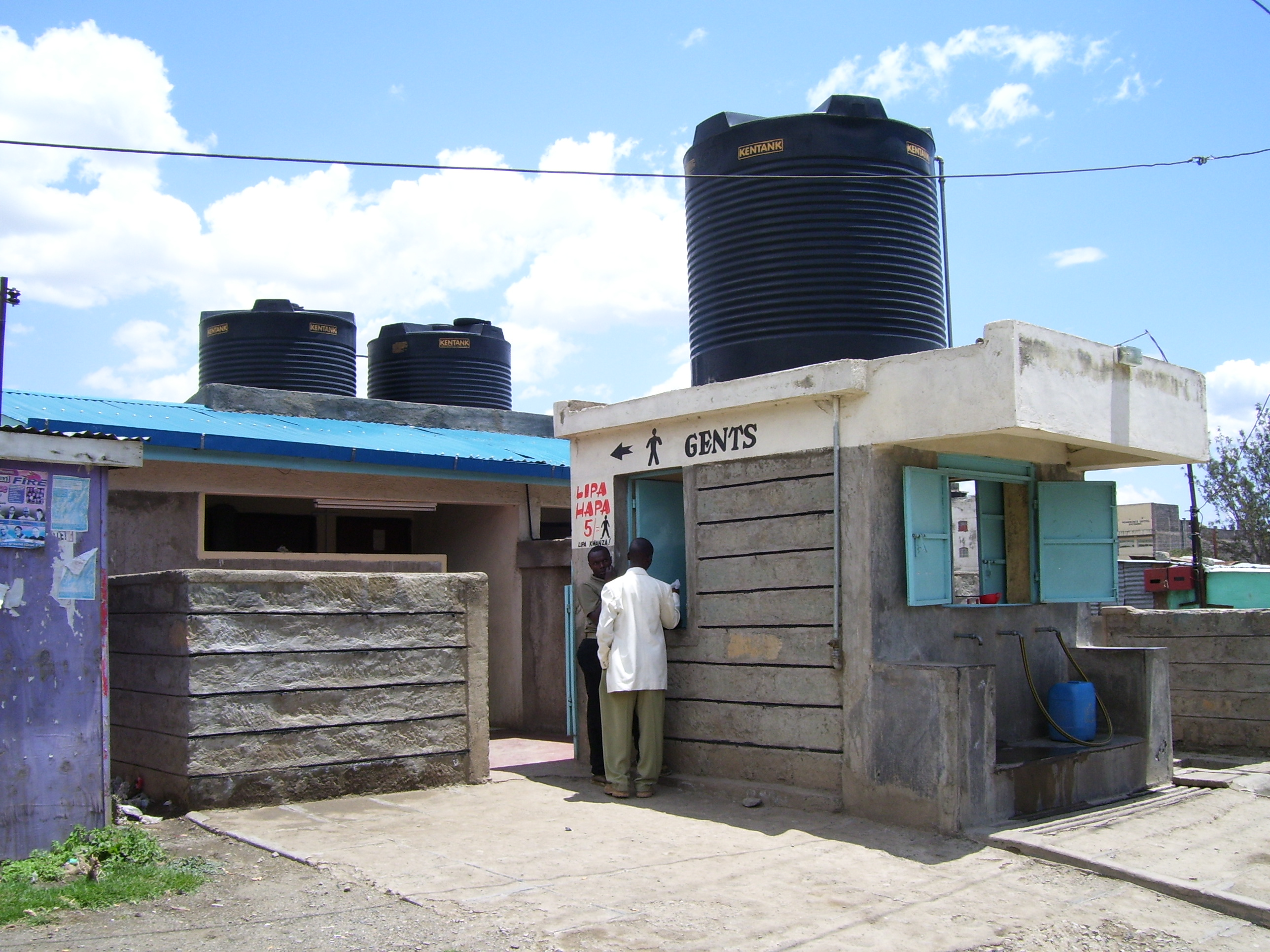 foto by: C.Rieck, 2008 Entrance to the gents side. In front is the water kiosk that functions as an operator room. Customers pay at the side window of it, where the 2 people stand. Behind you can see the gents section of the toilet.